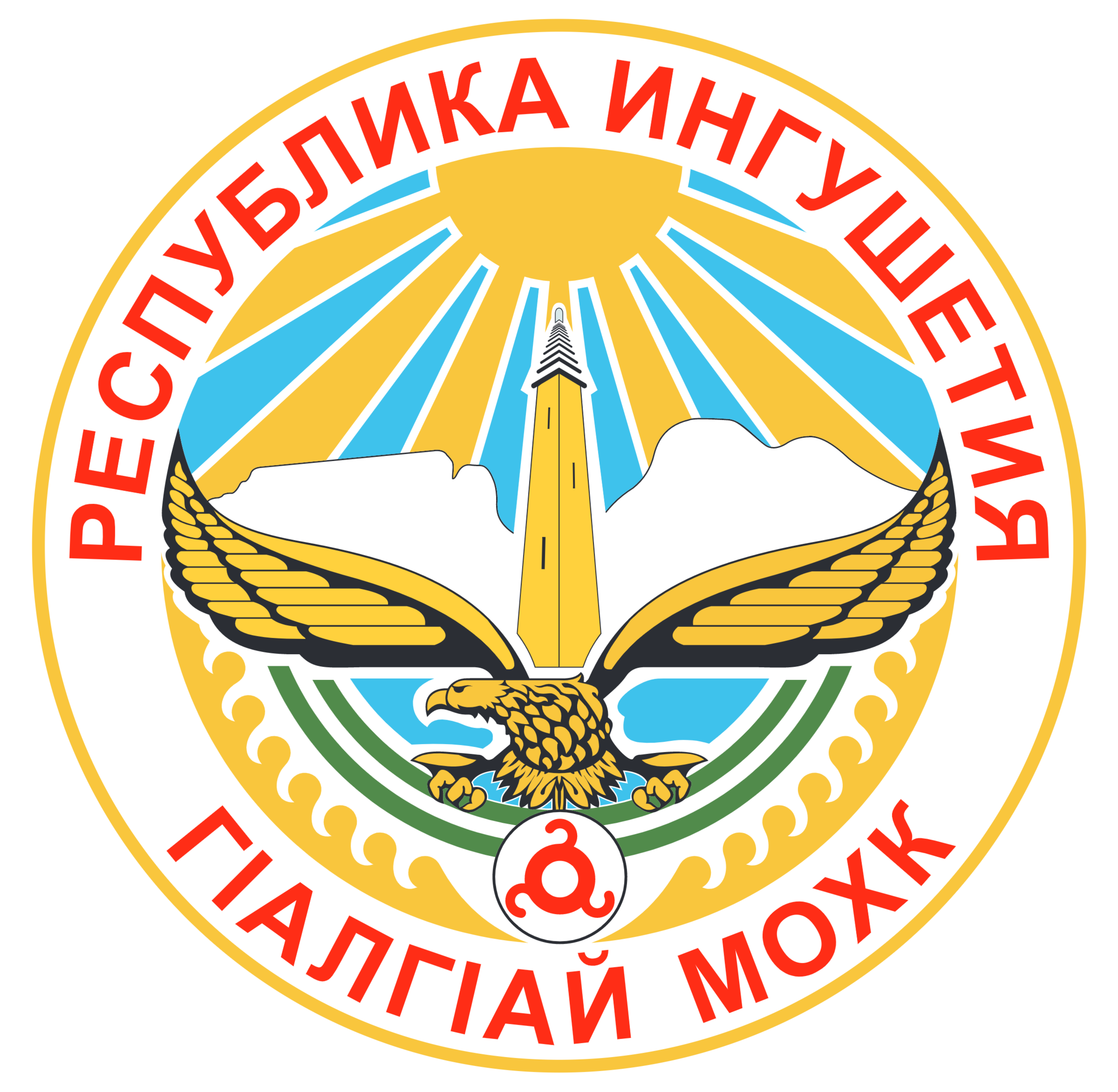 Coat of arms of Ingushetia.